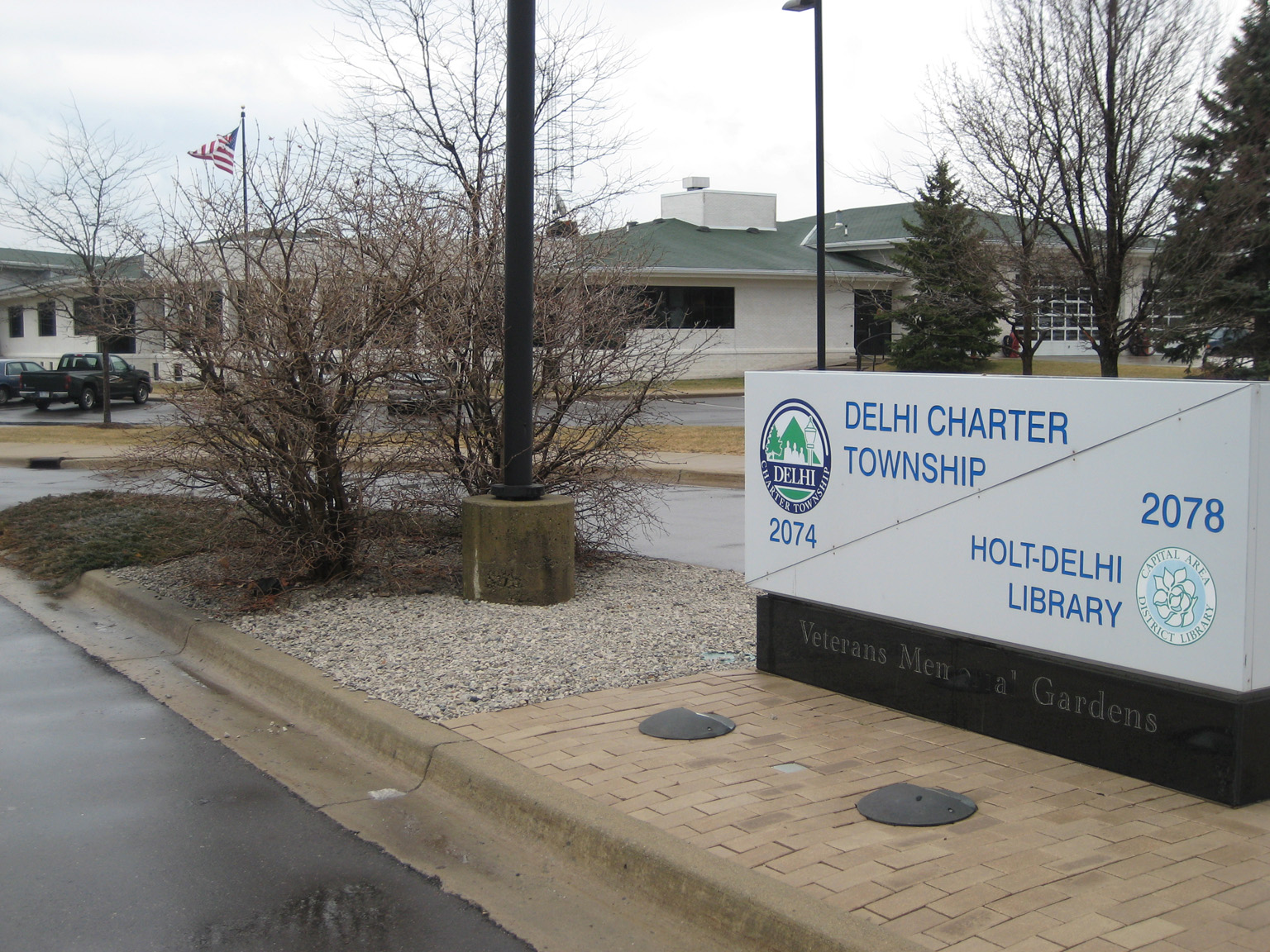 Holt - Delhi Charter Township, Michigan, library and administrative offices. Capital Area District Library branch on Aurelius Road.